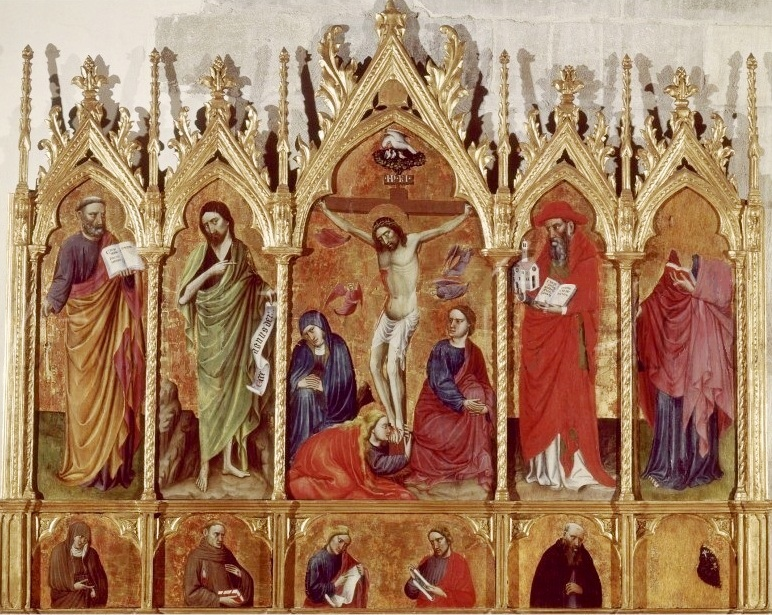 Zanino di Pietro (attr.), Polyptych, ca 1410, Avignon ; musée du Petit Palais